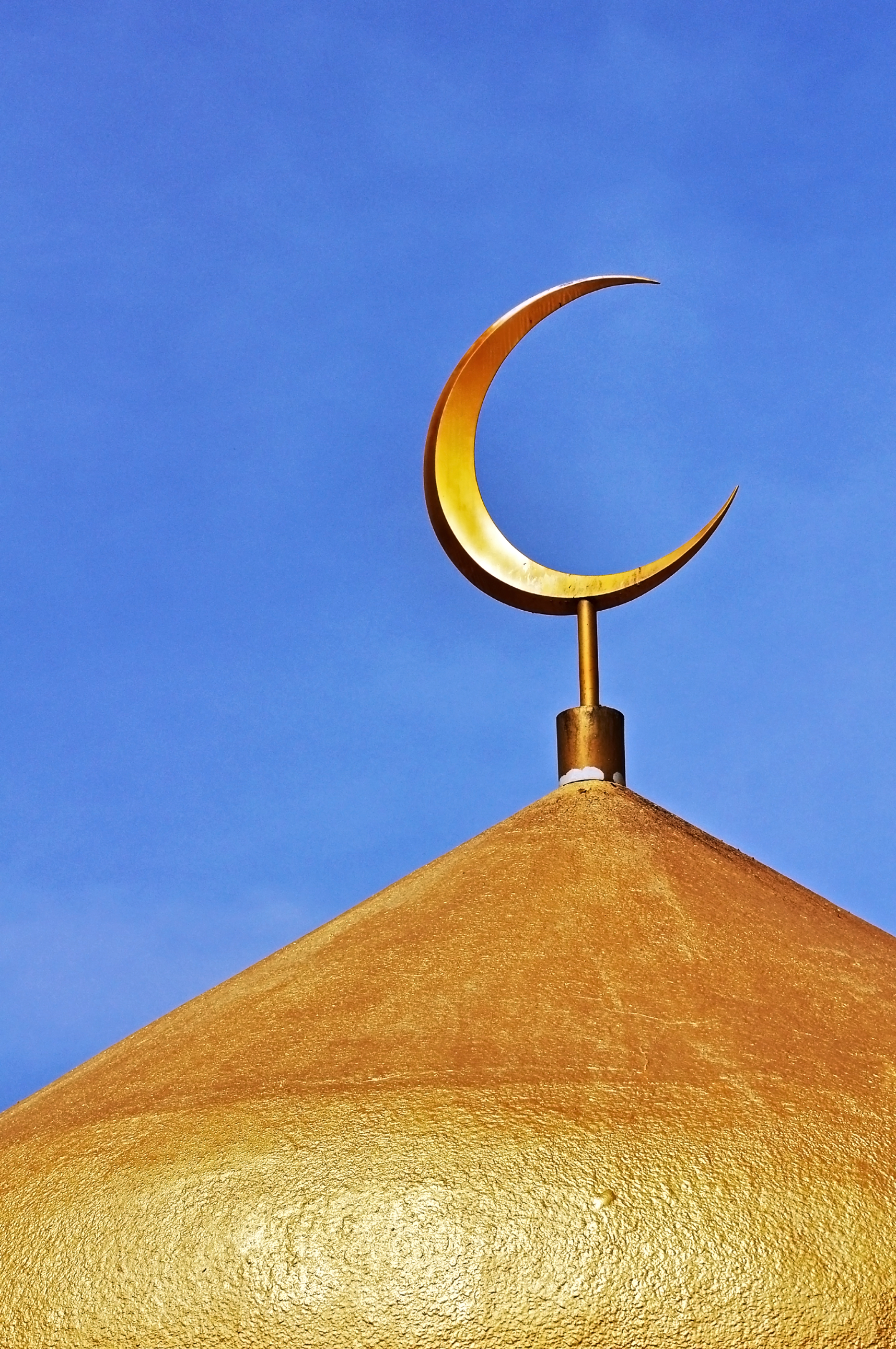 An Islamic 'Crescent Moon' finial symbolically decorating the rooftop of a Mosque in Kota Kinabalu. Sabah, Malaysia.